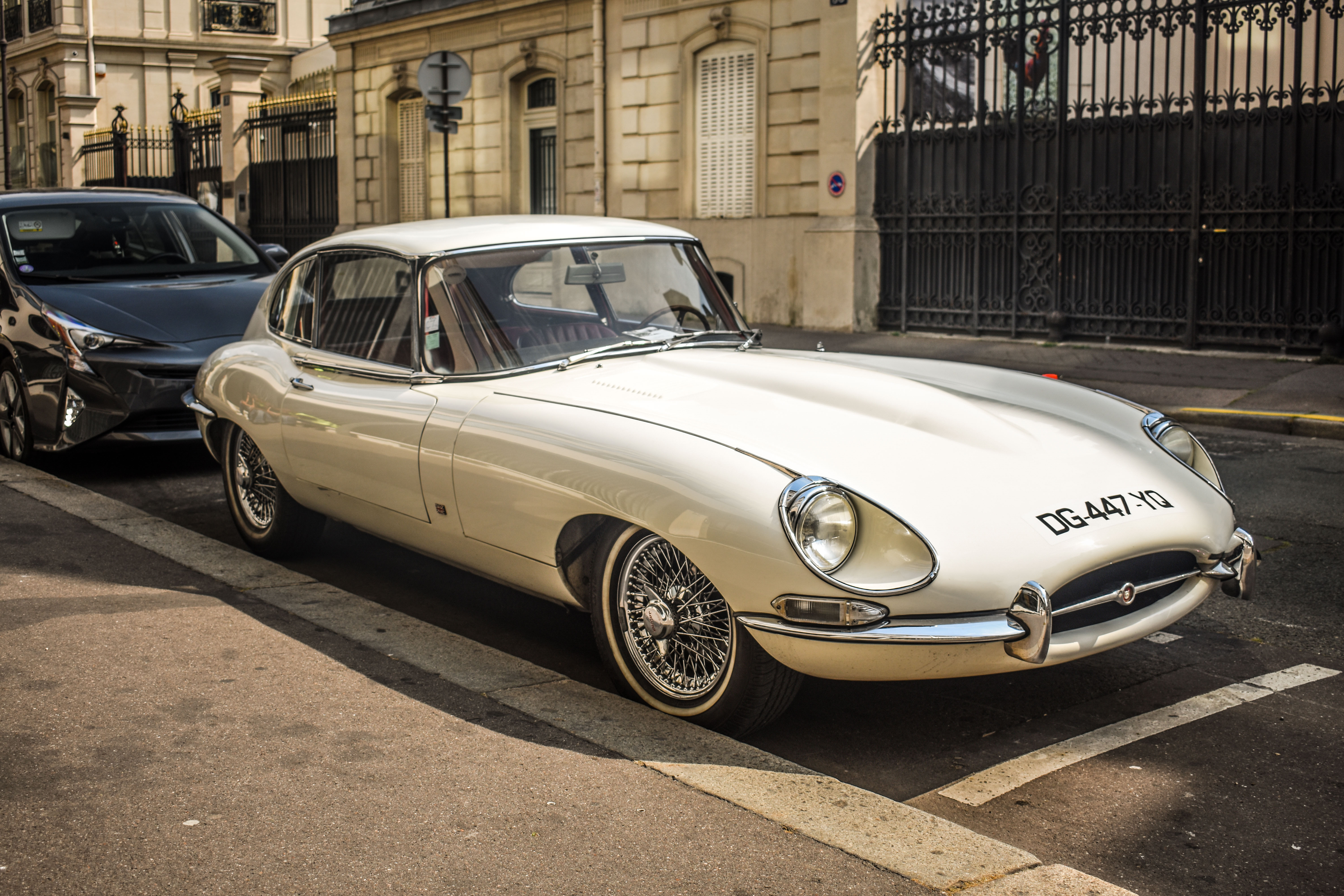 Jaguar E-Type in Paris